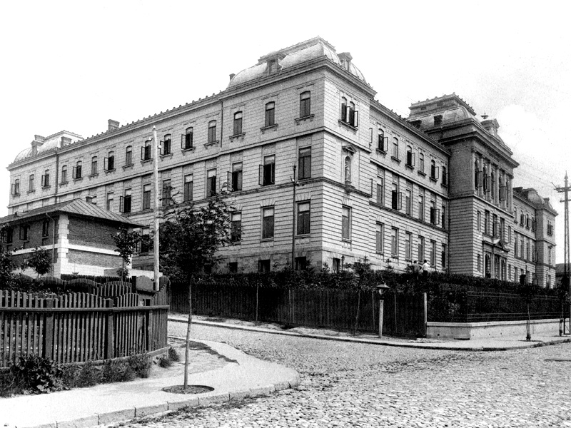 "Costache Negruzzi" Boarding High School, nowadays "Costache Negruzzi" National College Iaşi